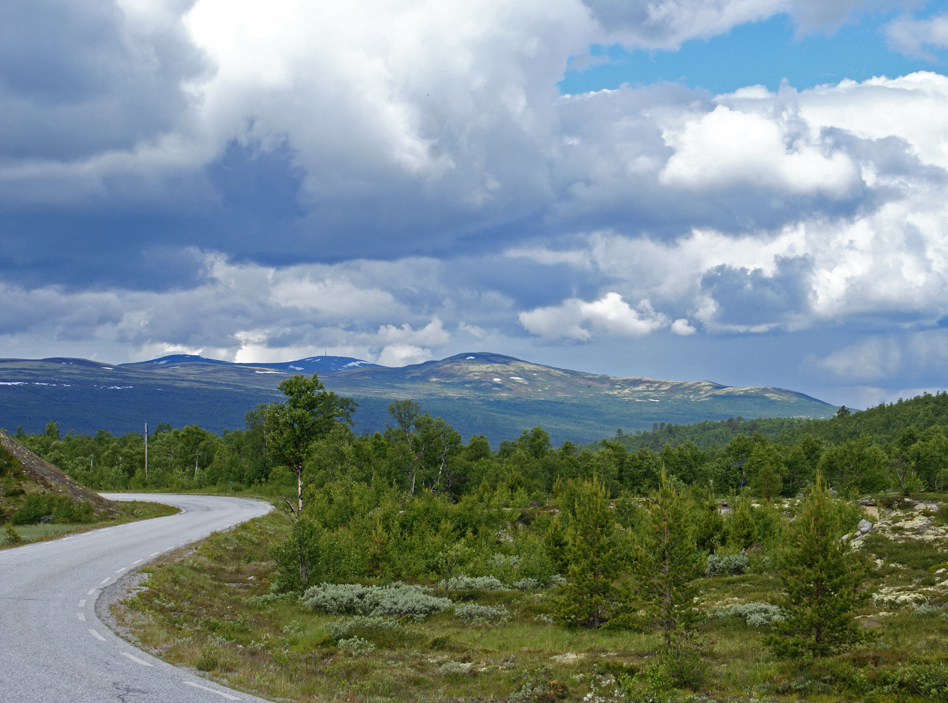 Mountain landscape, Os near Røros, Norway